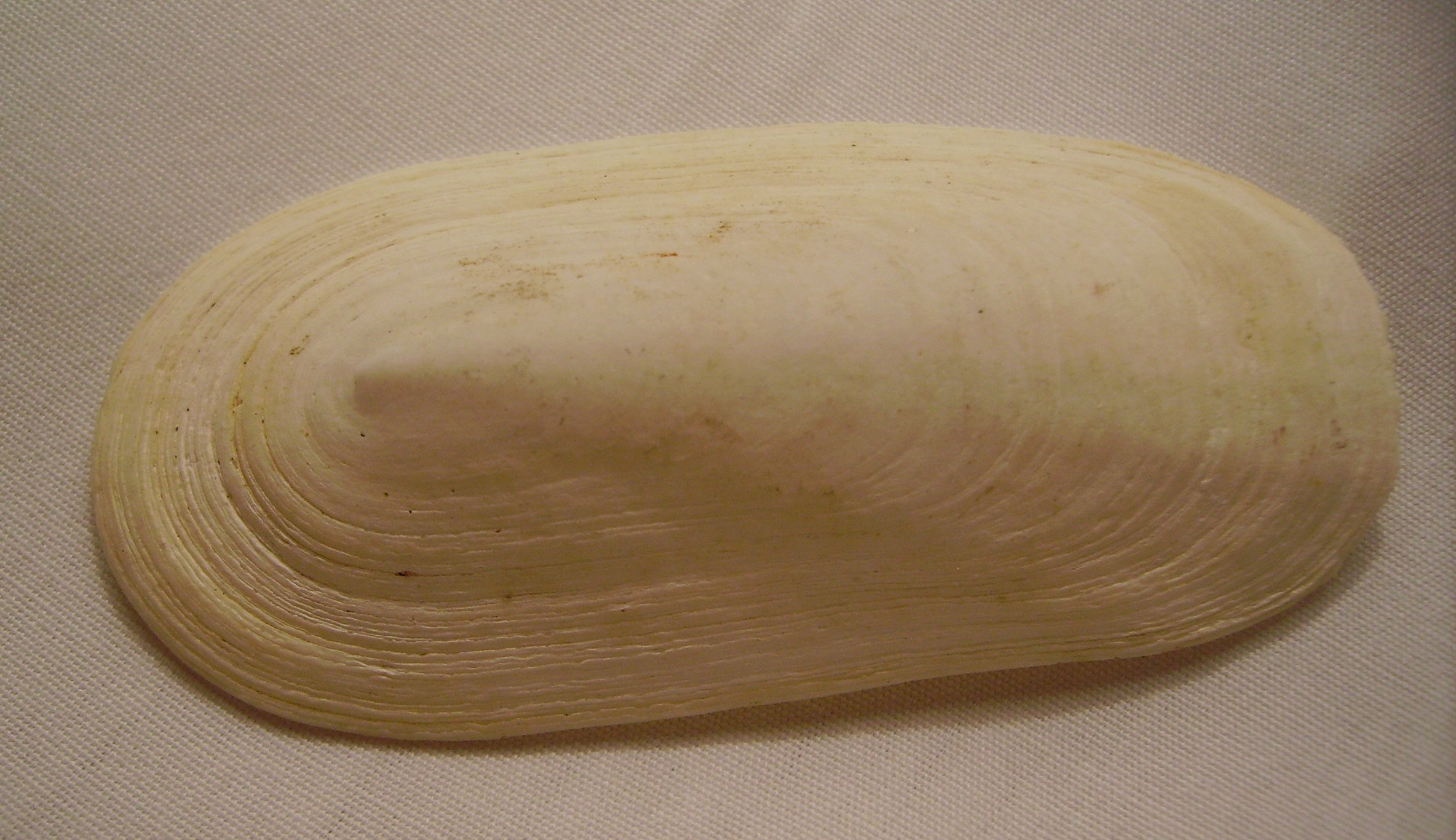 Scutus breviculus top, Wellington, New Zealand.